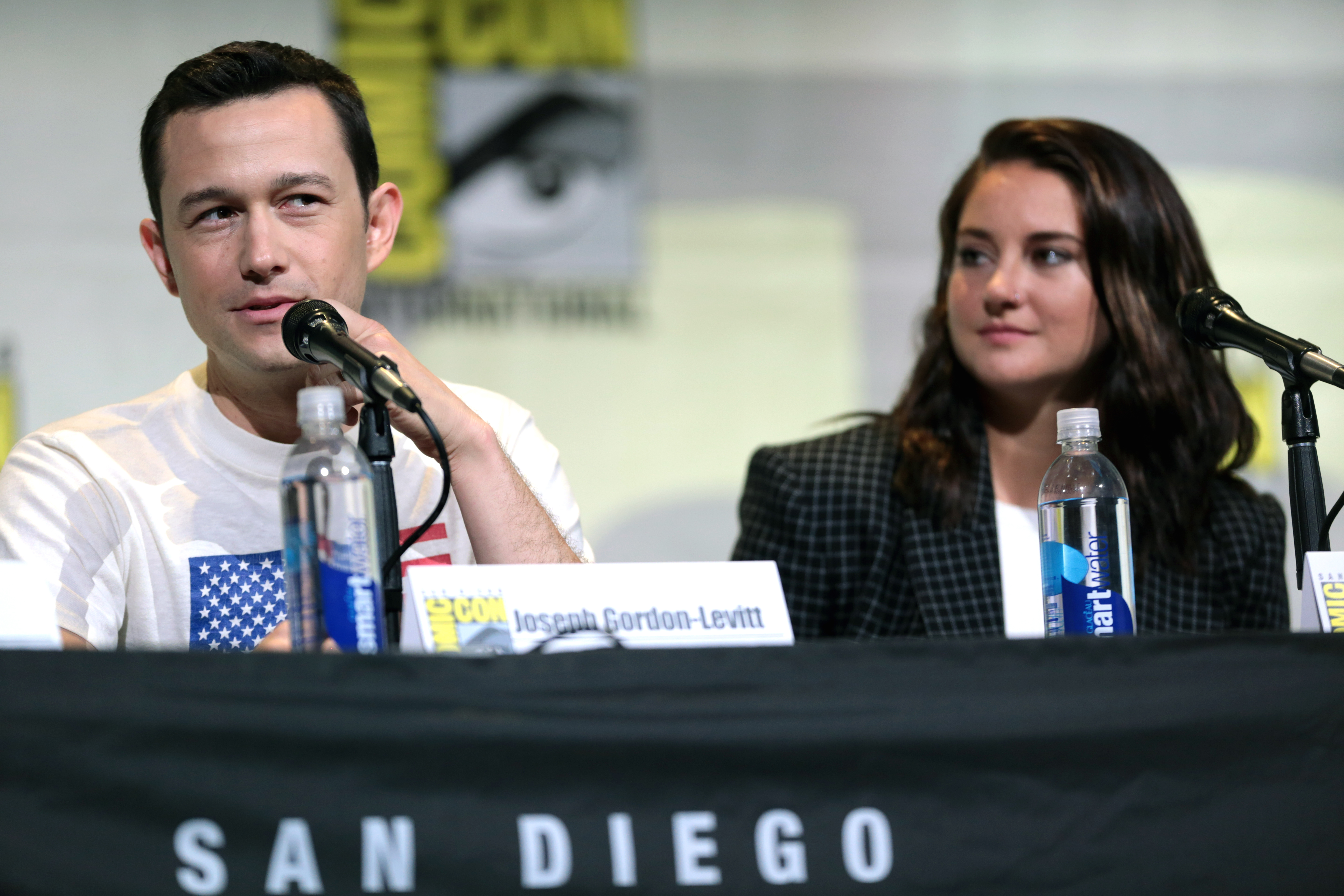 Joseph Gordon-Levitt and Shailene Woodley speaking at the 2016 San Diego Comic Con International, for "Snowden", at the San Diego Convention Center in San Diego, California.